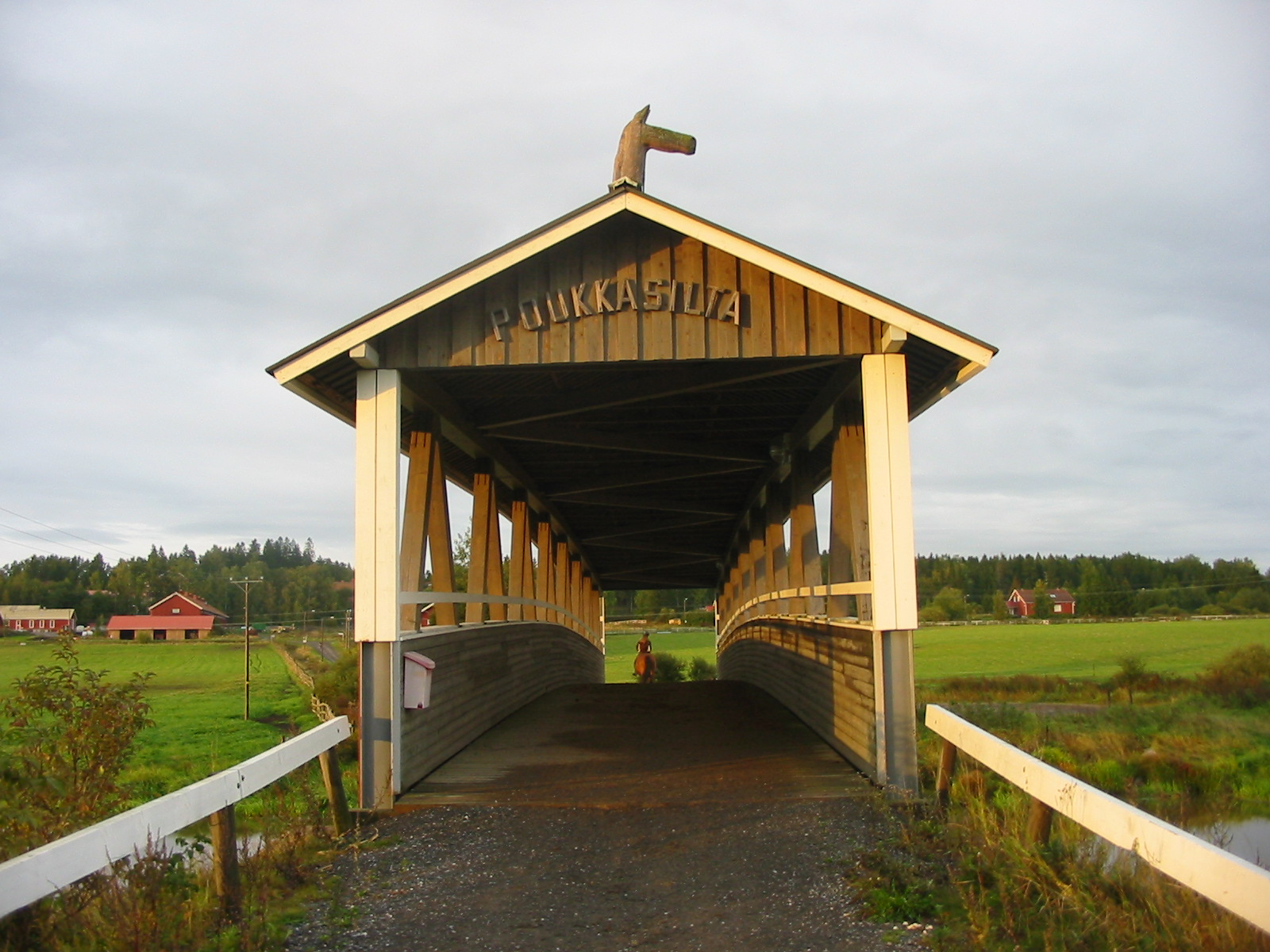 Poukkasilta, a covered bridge between the villages of Levä and Kartanonkylä over the river Loimijoki in Ypäjä, Finland. The old bridge has been recently rebuilt as a covered bidge especially for horse traffic.